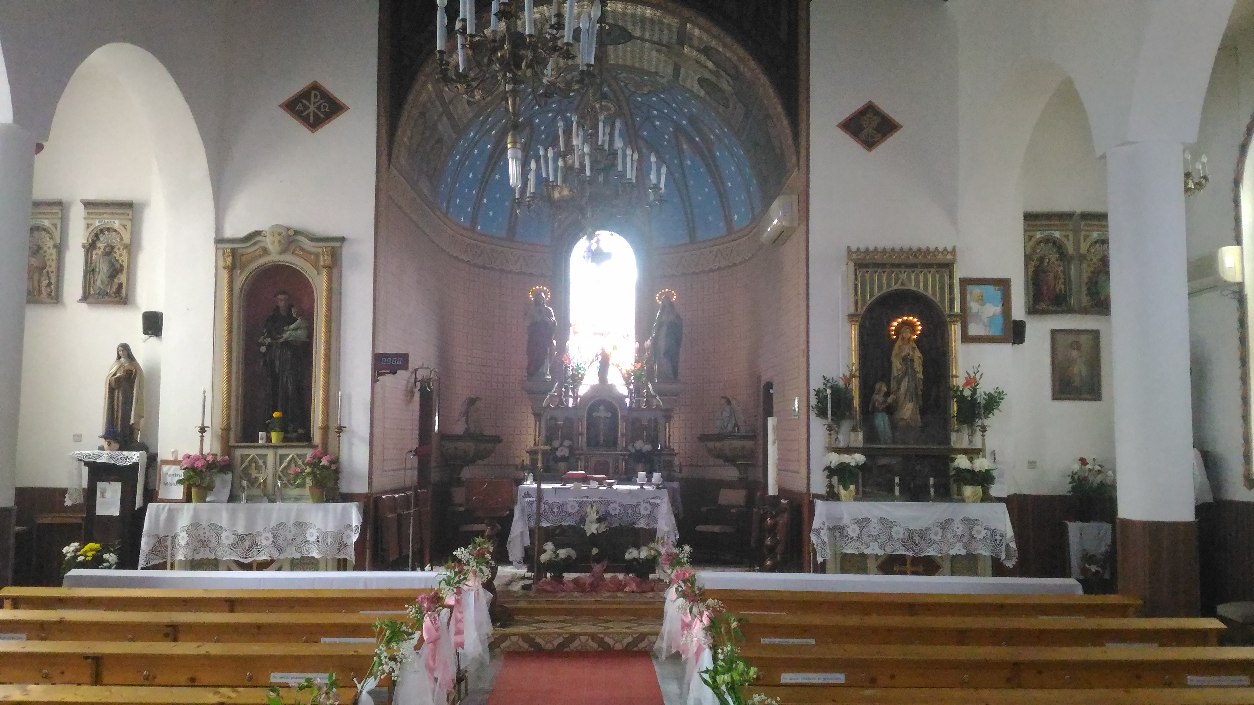 Saints Peter and Paul Church (Pitești)